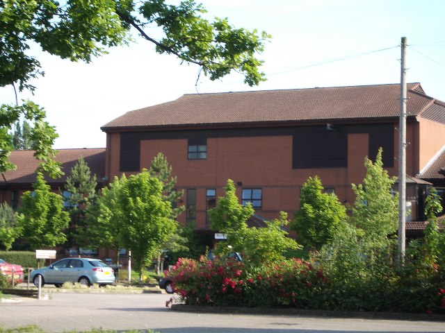 Solihull Hospital. The photograph was taken of from the car park to the north of the Hospital